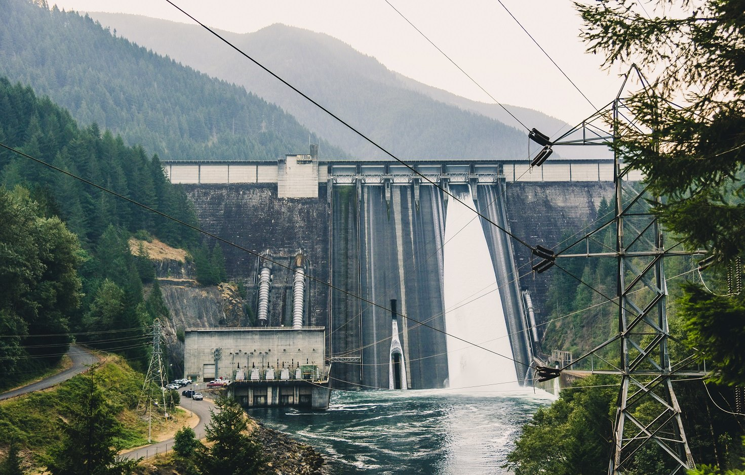 Detroit Dam.